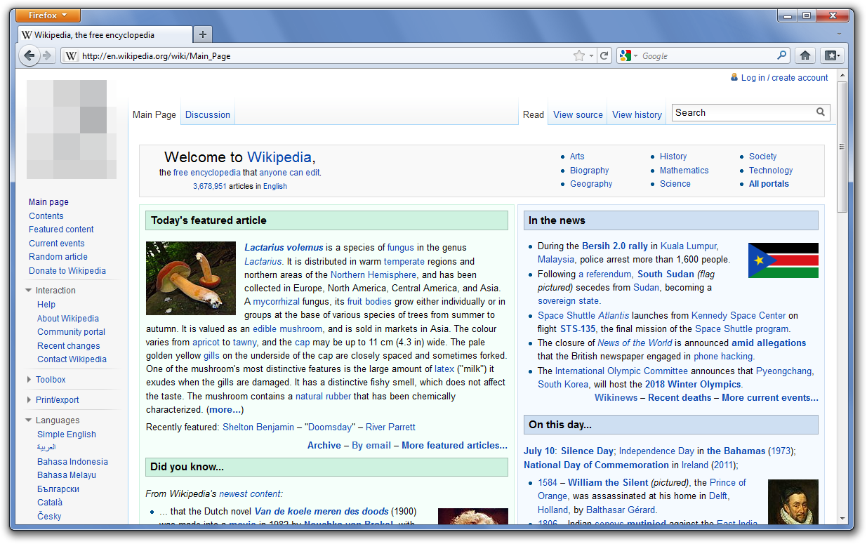 Firefox 5 running on Windows 7